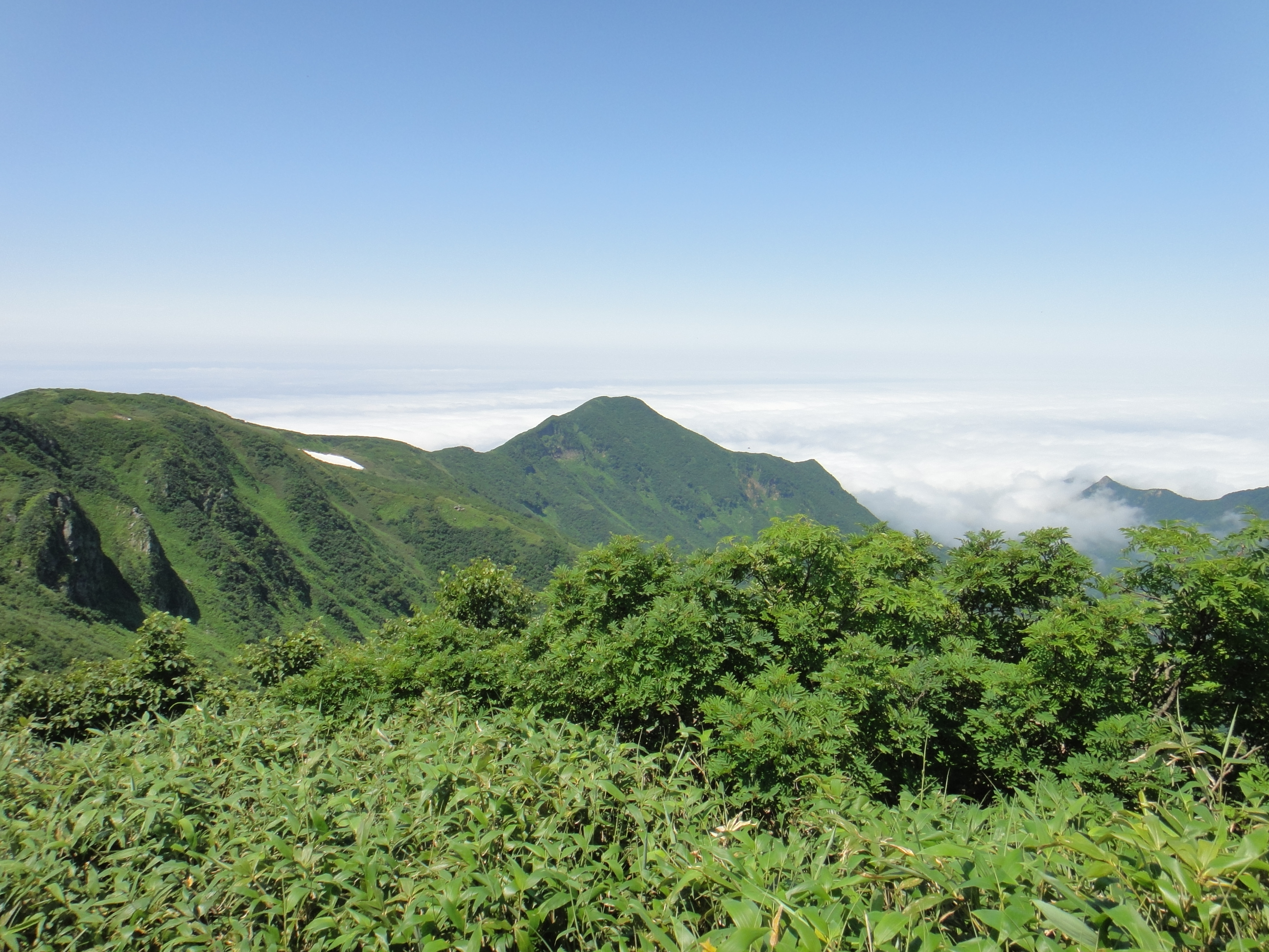 Mount Okotsunai (Okotsunaidake) in Hokkaido, Japan, seen from Mount Mae (Maeyama)